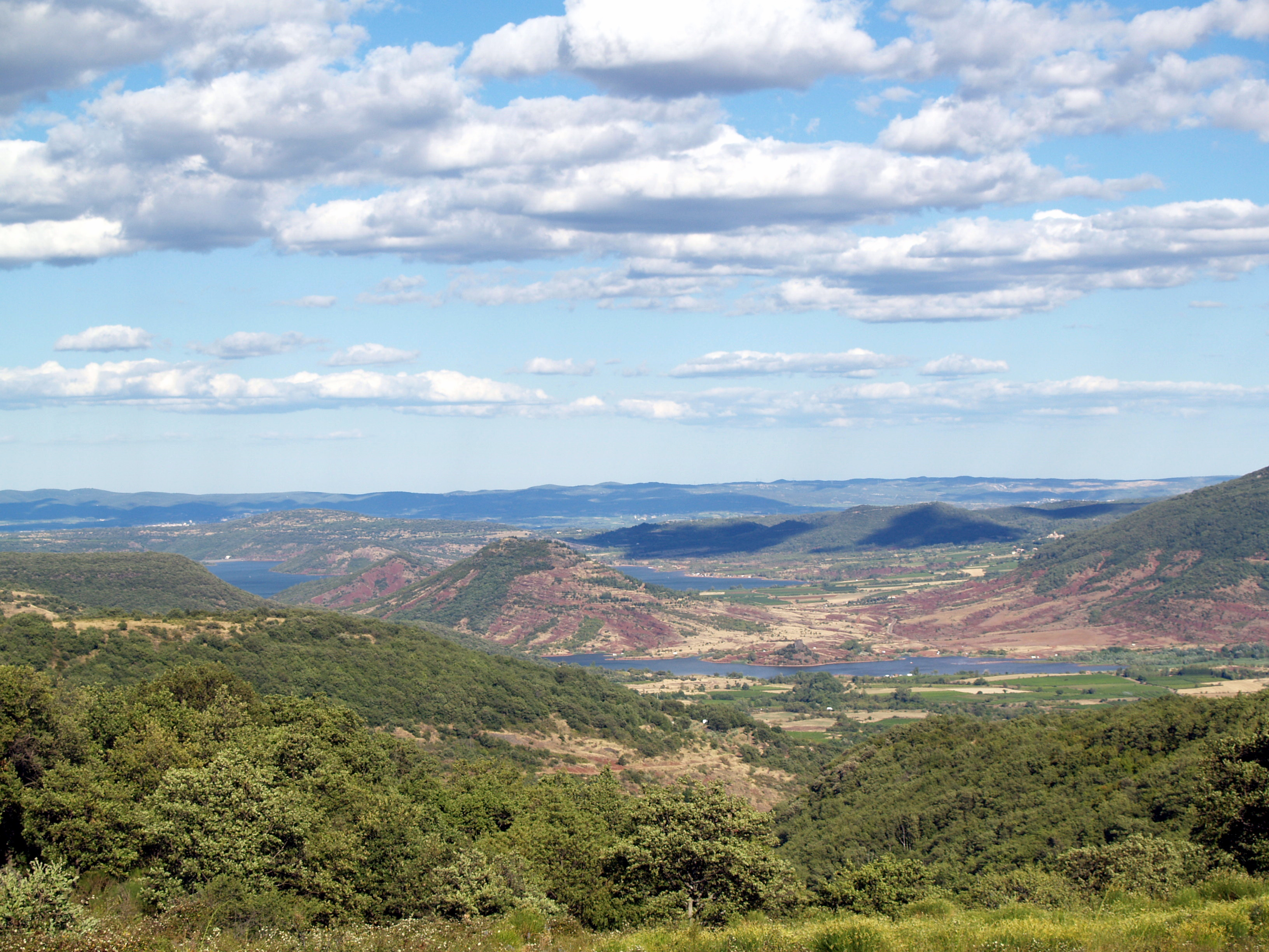 On top of Cayroux